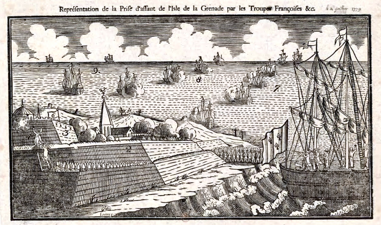 Representation of the capture of the island of Grenada July 4, 1779 by the French fleet of d'Estaing. Printmaking.